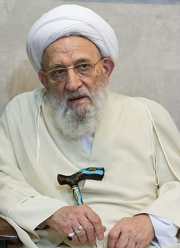 Mohammad-Reza Mahdavi Kani